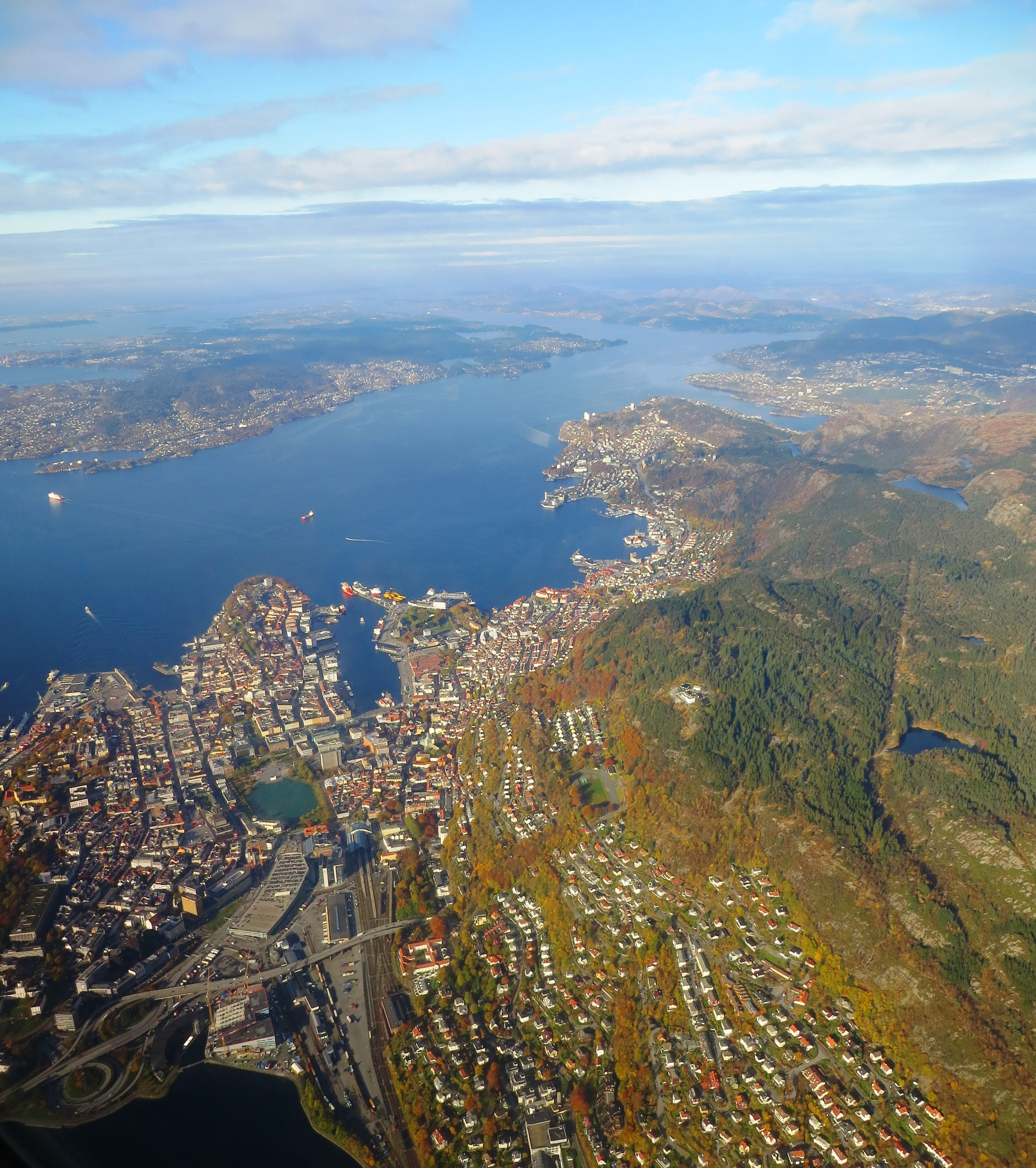 Downtown area and Sandviken in north-central Bergen, Norway.